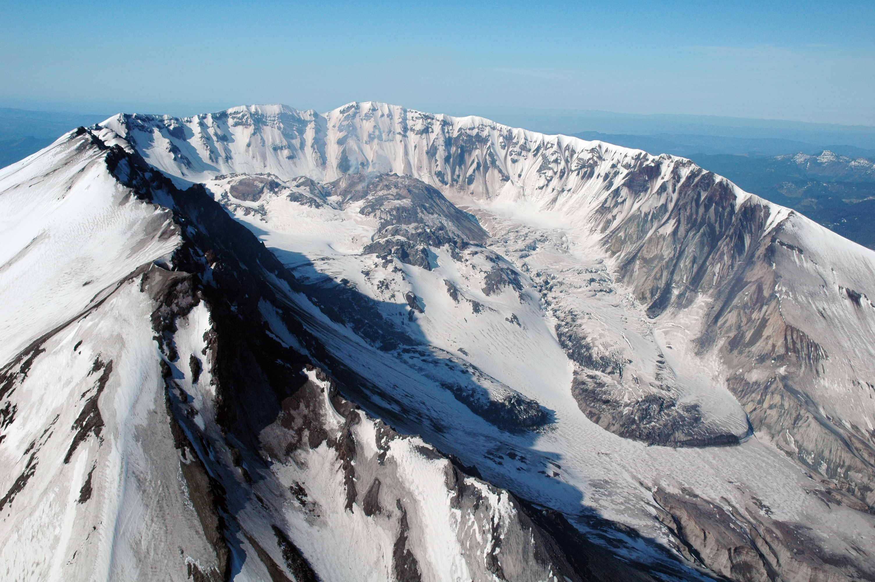 USGS photo of the Mount St. Helens crater taken 8 May 2007. Caption: Aerial view, Mount St. Helens crater and dome, as seen from the north.